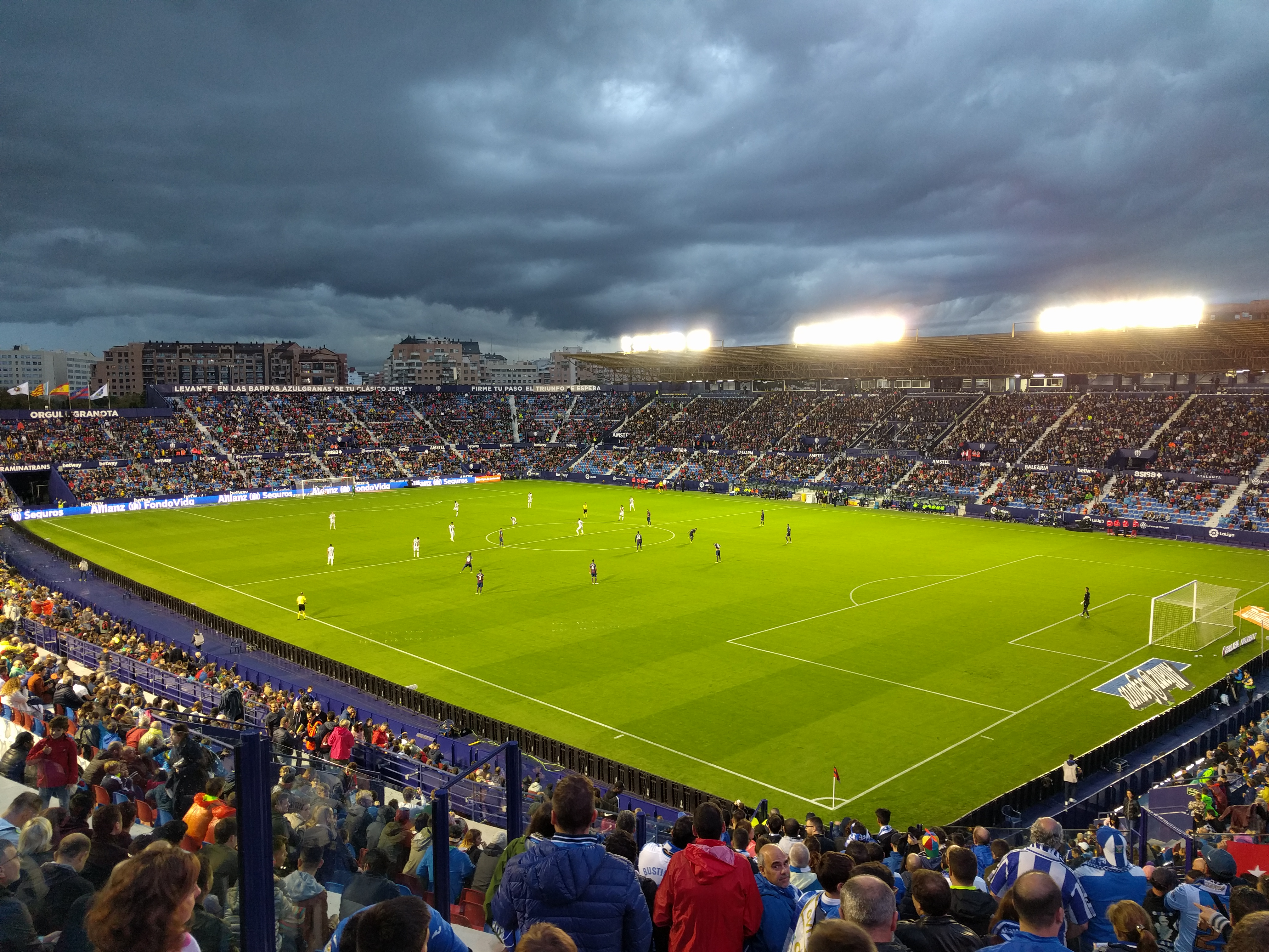 Match of Primera División, LaLiga 2018-19, Levante UD 2:0 CD Leganés, Ciudad de Valencia